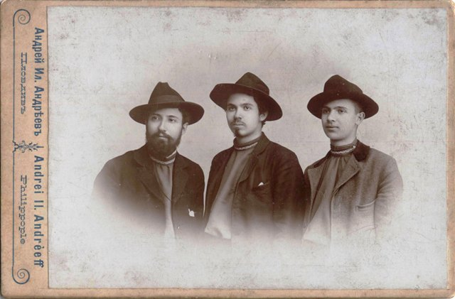 Mihail, Stefan and Nikolay Gerdzhikov by Andrey Andreev, 1904